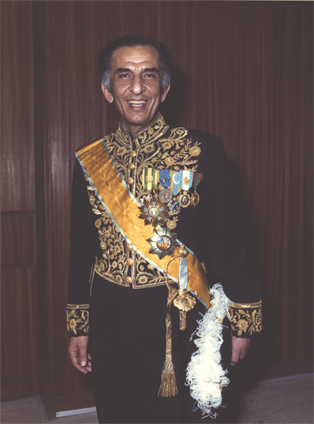 Jamshid Amuzegar, former prime minister of Iran, in uniform.